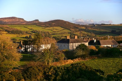 Kilfinane from The Moate